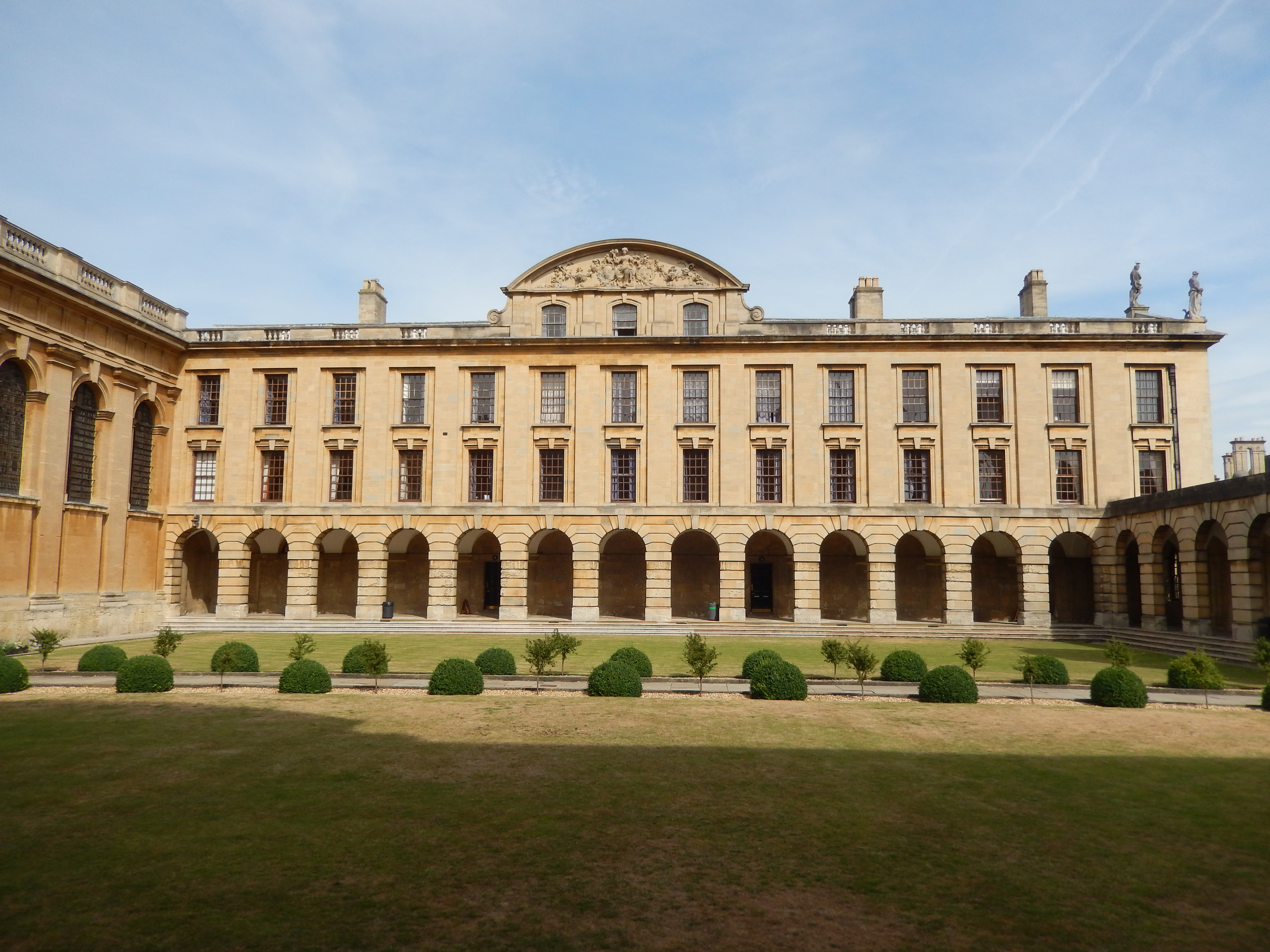 The Queen's College, Oxford University.